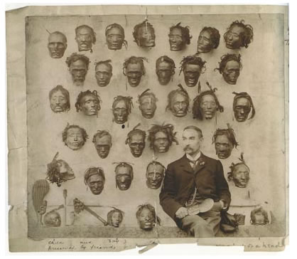 H.G. Robley with his collection of mokomokai